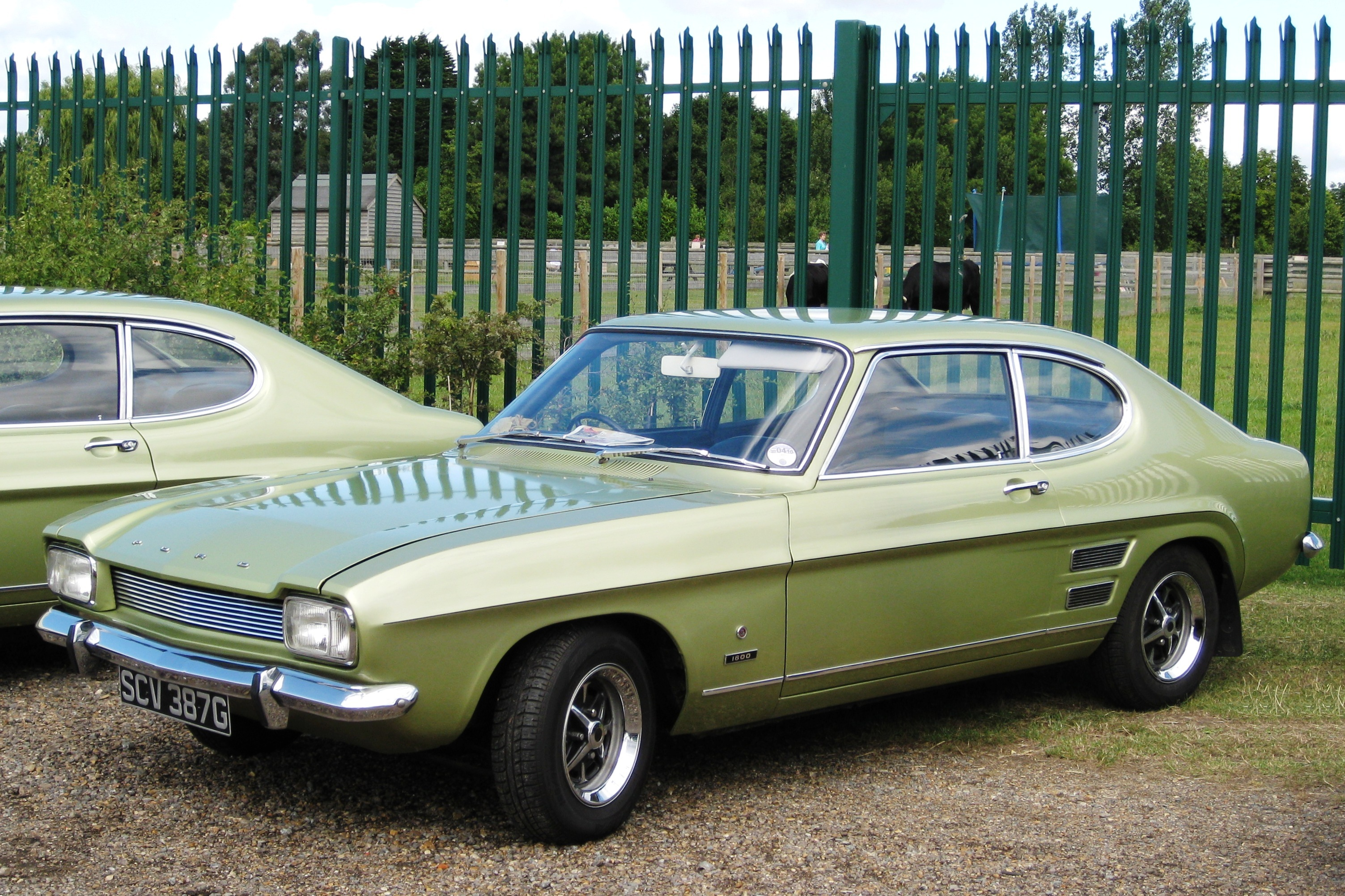 Ford Capri July 1969. This car was registered only six months after the car had been launched, and appears to have been restored so that (with the possible exception of the wheels) it closely resembles the cars as they appeared when new shortly after the model was launched. The car was photographed in Essex, close to Ford's largest UK factory, its European research centre at Dunton and an administrative head office at Warley, Brentwood. In the closing decades of the twentieth century the focus of Ford's European operations shifted towards continental Europe, but the area was and remains "Ford Country" in terms of the local levels enthusiasm and knowledge concerning the cars.